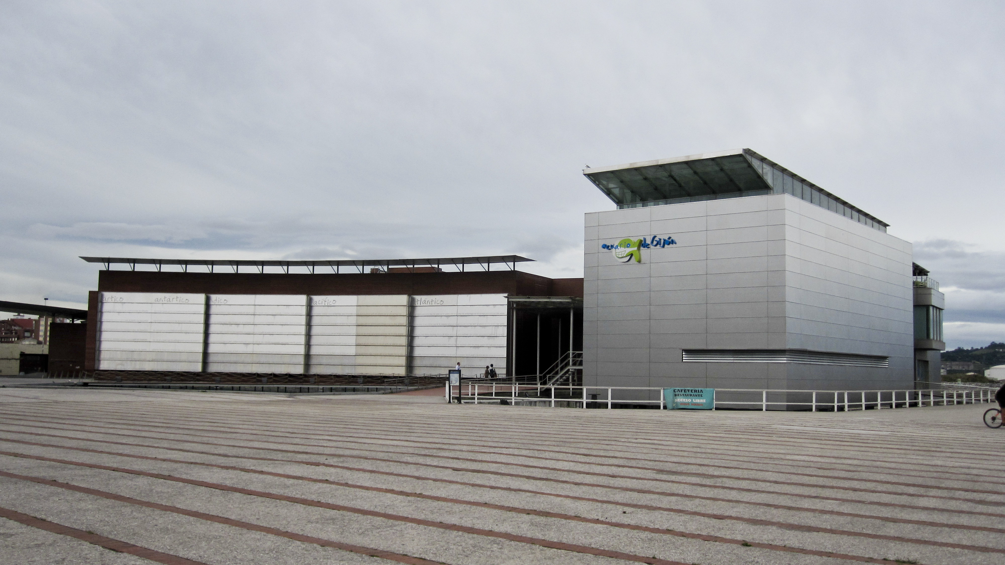 Aquarium, Gijón, Astoria, Spain